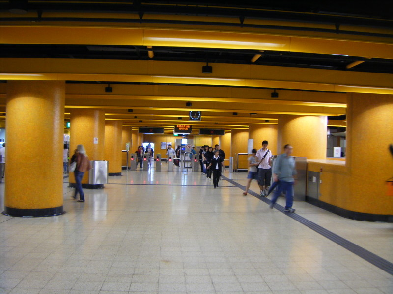 MTR Sai Wan Ho station concourse